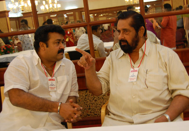 Mohanlal and Madhu discuss from AMMA General Body meeting 2008